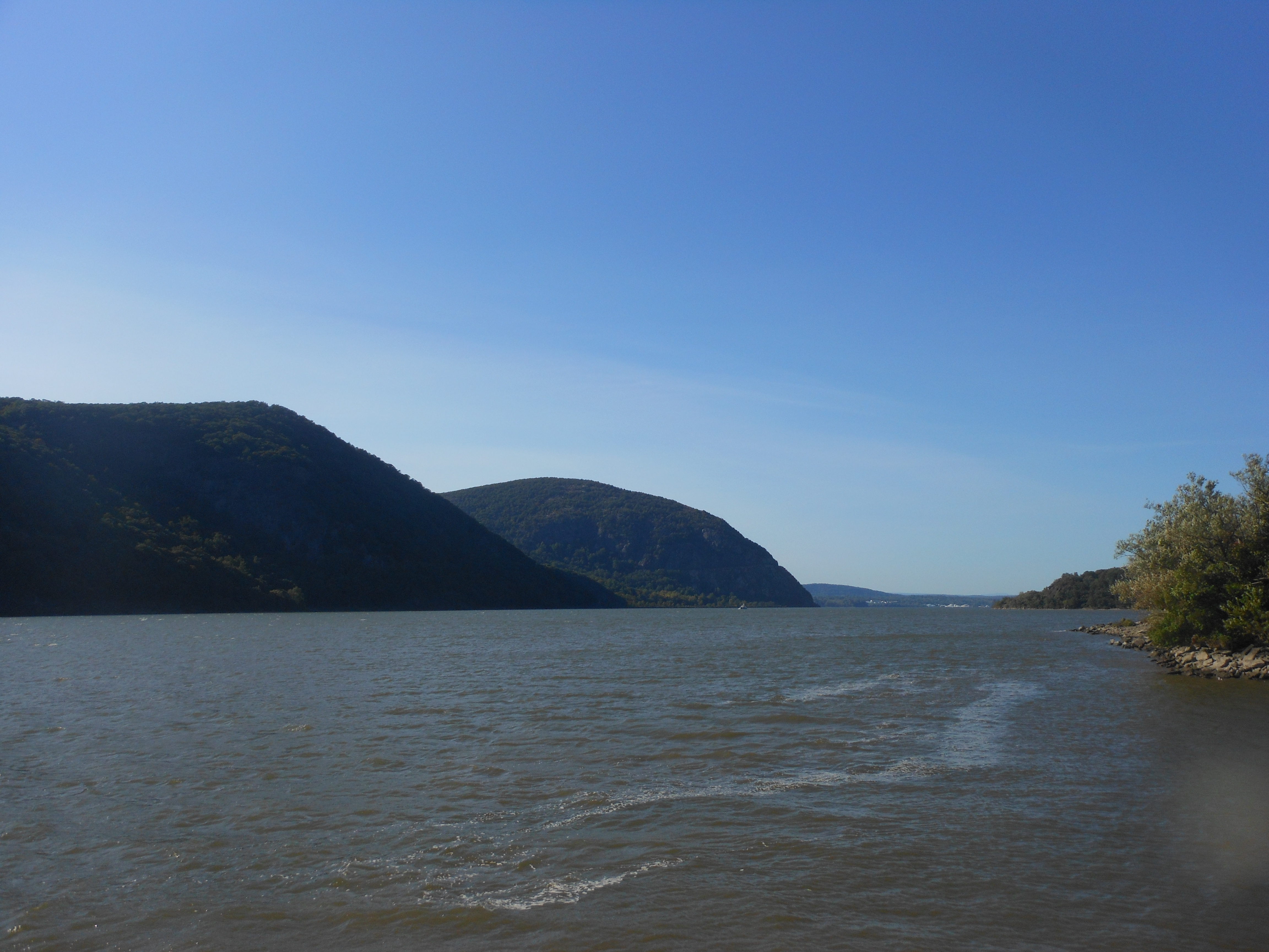 Cold Spring, New York along the Hudson River